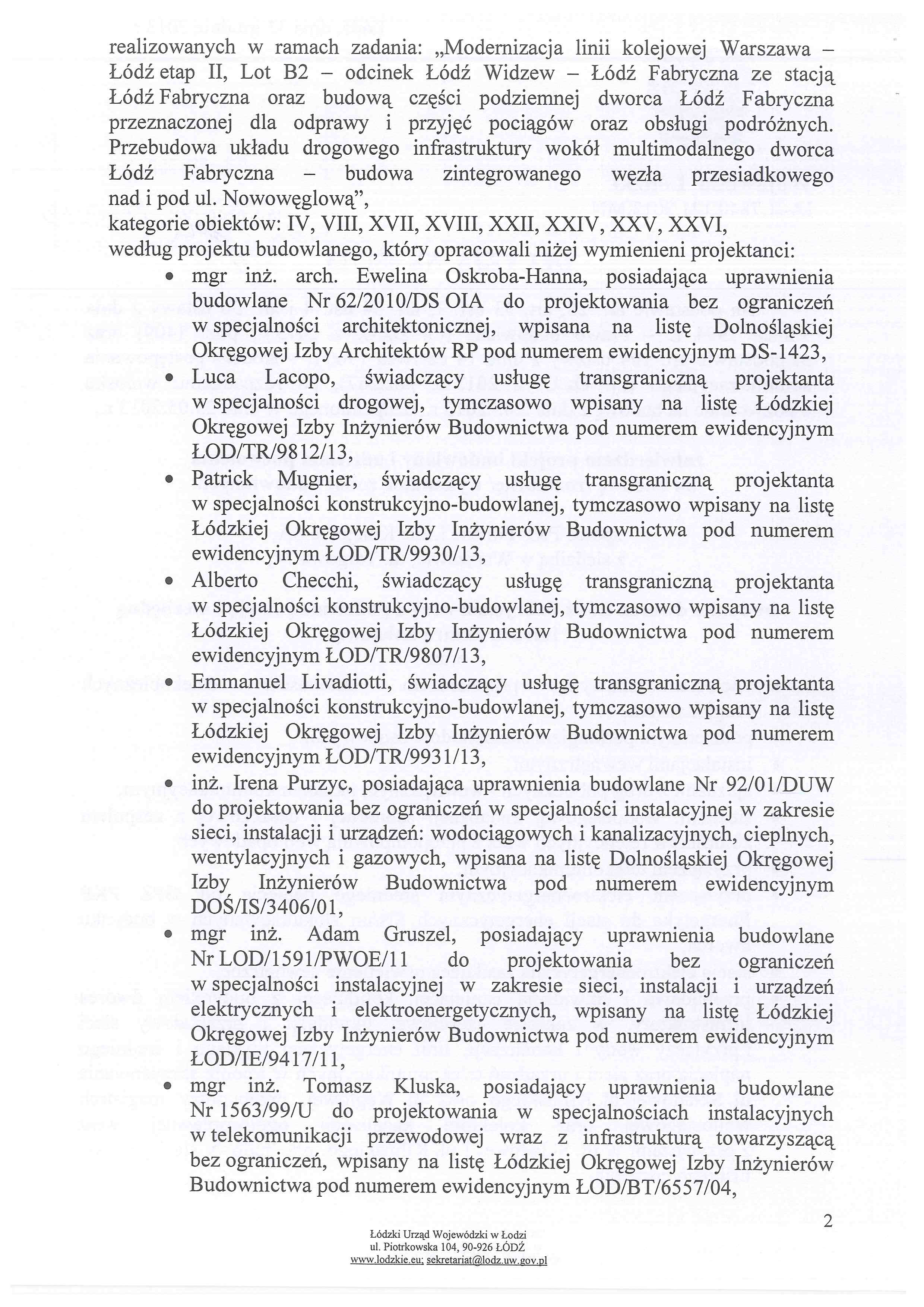 Building permit (name of the design team)